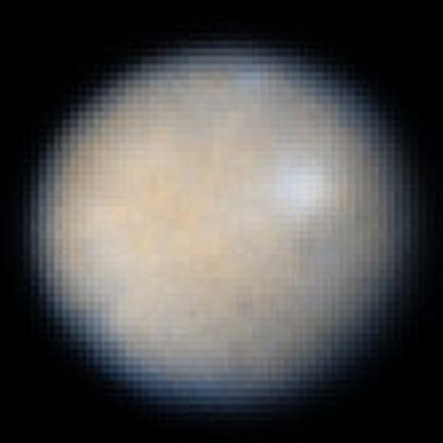 NASA's Hubble Space Telescope took this images of the asteroid 1 Ceres. The bright spot that appears in the image is a mystery. It is brighter than its surroundings. Yet it is still very dark, reflecting only a small portion of the sunlight that shines on it.